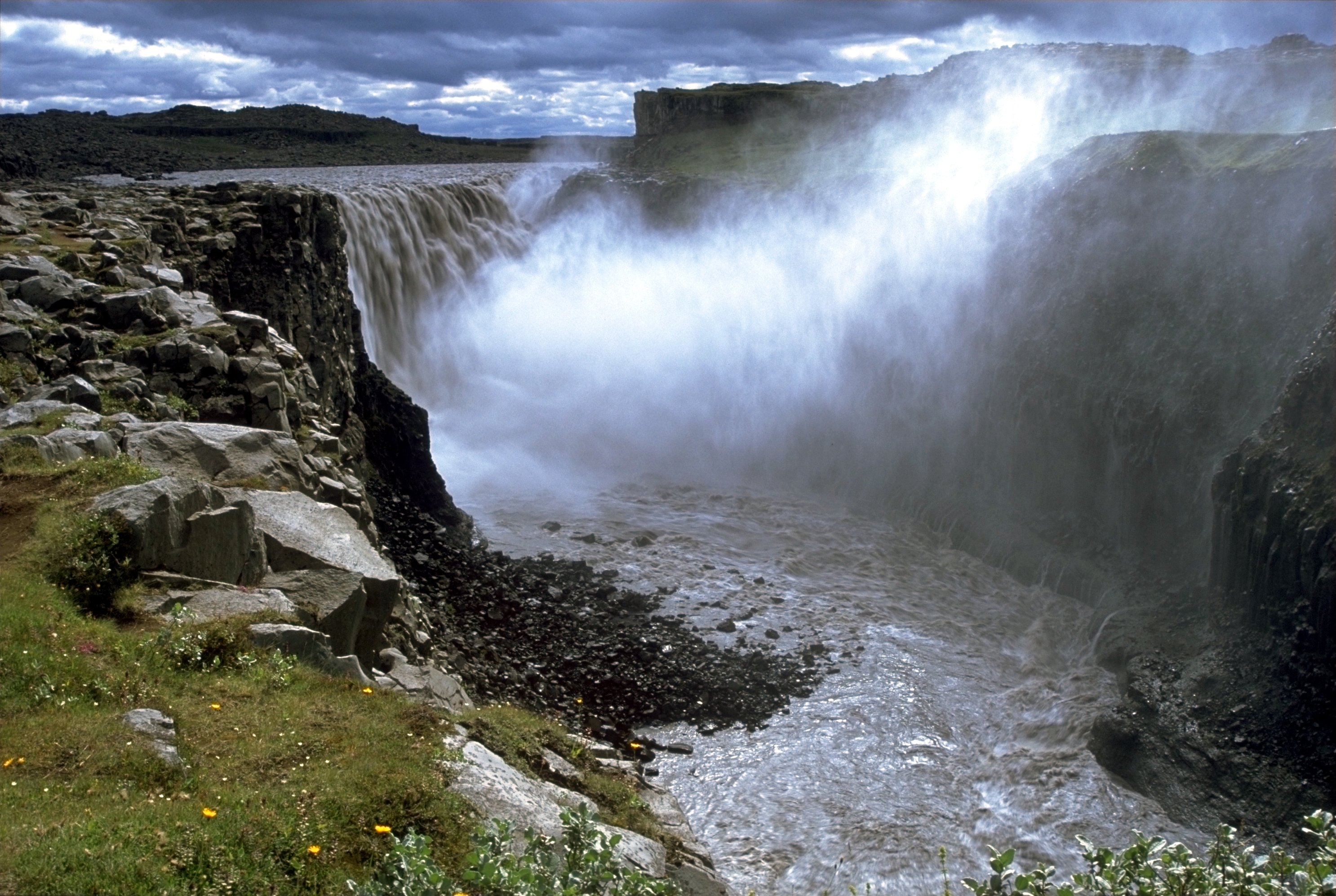 Dettifoss featuring spray against the wall of the canion, Jökulsárgljúfur national park, Iceland Photo was taken using the following technique: Film: Fuji Velvia Lens: 2.8/28 Filter: Polarisation Body: Minolta Dynax 7 Support: Manfrotto 190B Image with Information in English Bild mit Informationen auf Deutsch